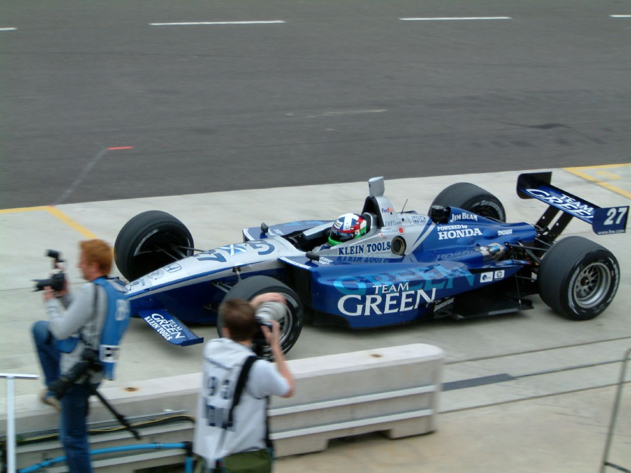 Dario Franchitti driving for Team Green at the 2002 Sure For Men Rockingham 500